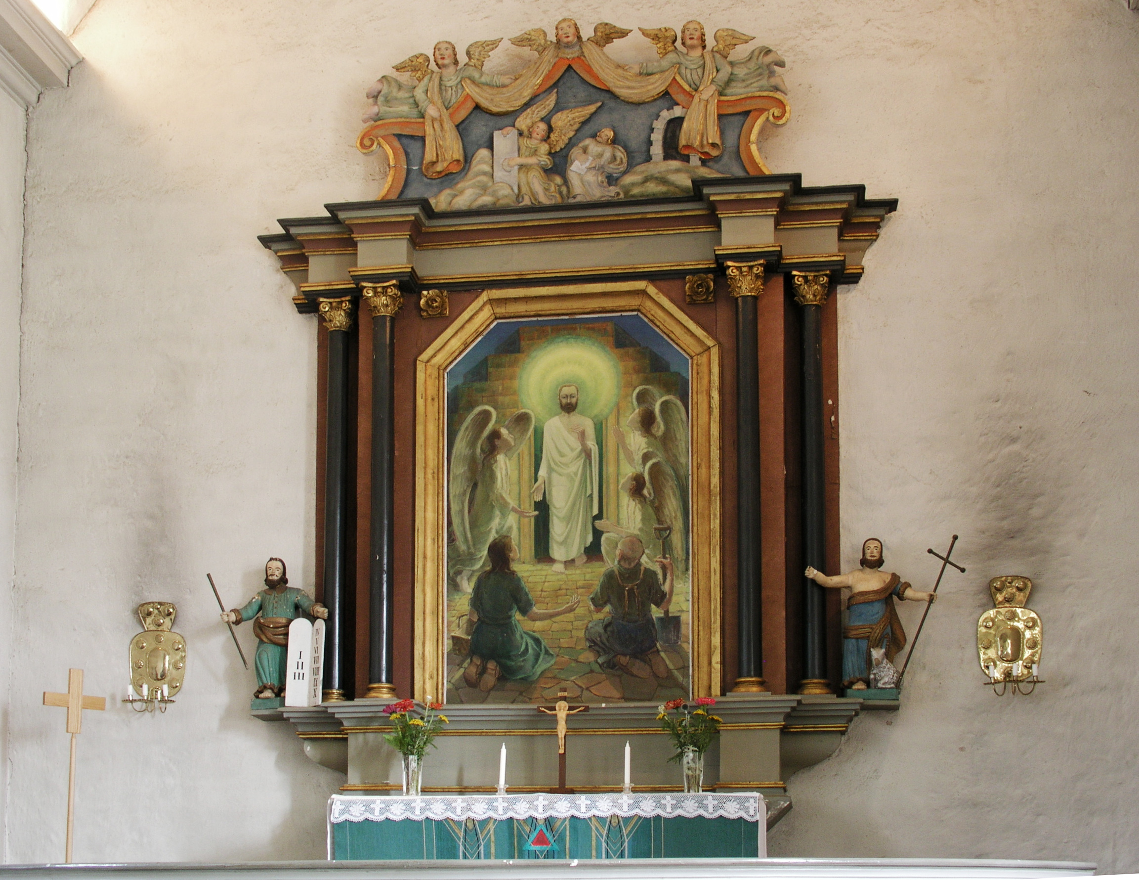 Smedby kyrka / Smedby church. The picture was taken the 2nd of August 2005 by Håkan Svensson (Xauxa).